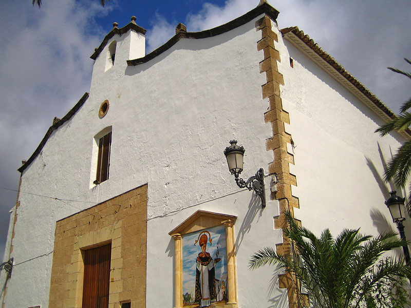 Saint Vincent Hermitage, Teulada, county Marina Alta, Region of Valencia, Spain